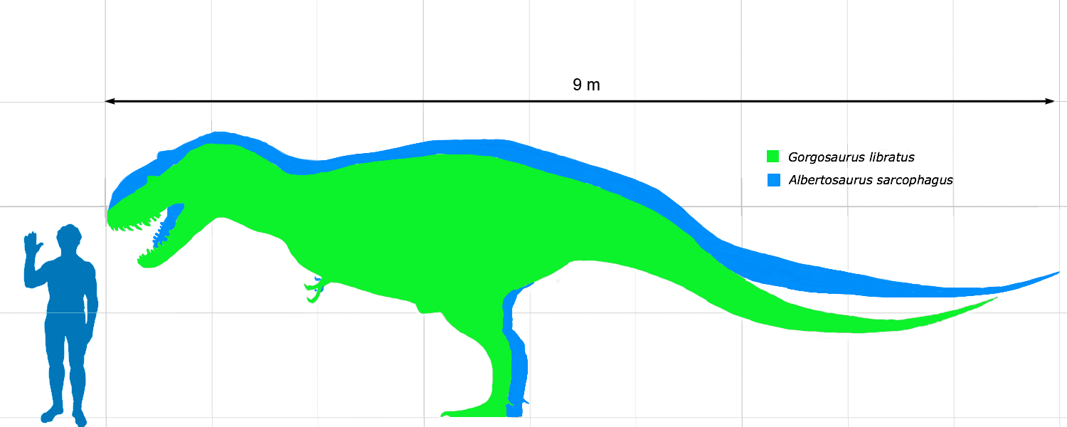 Scale diagram of Albertosaurus and Gorgosaurus